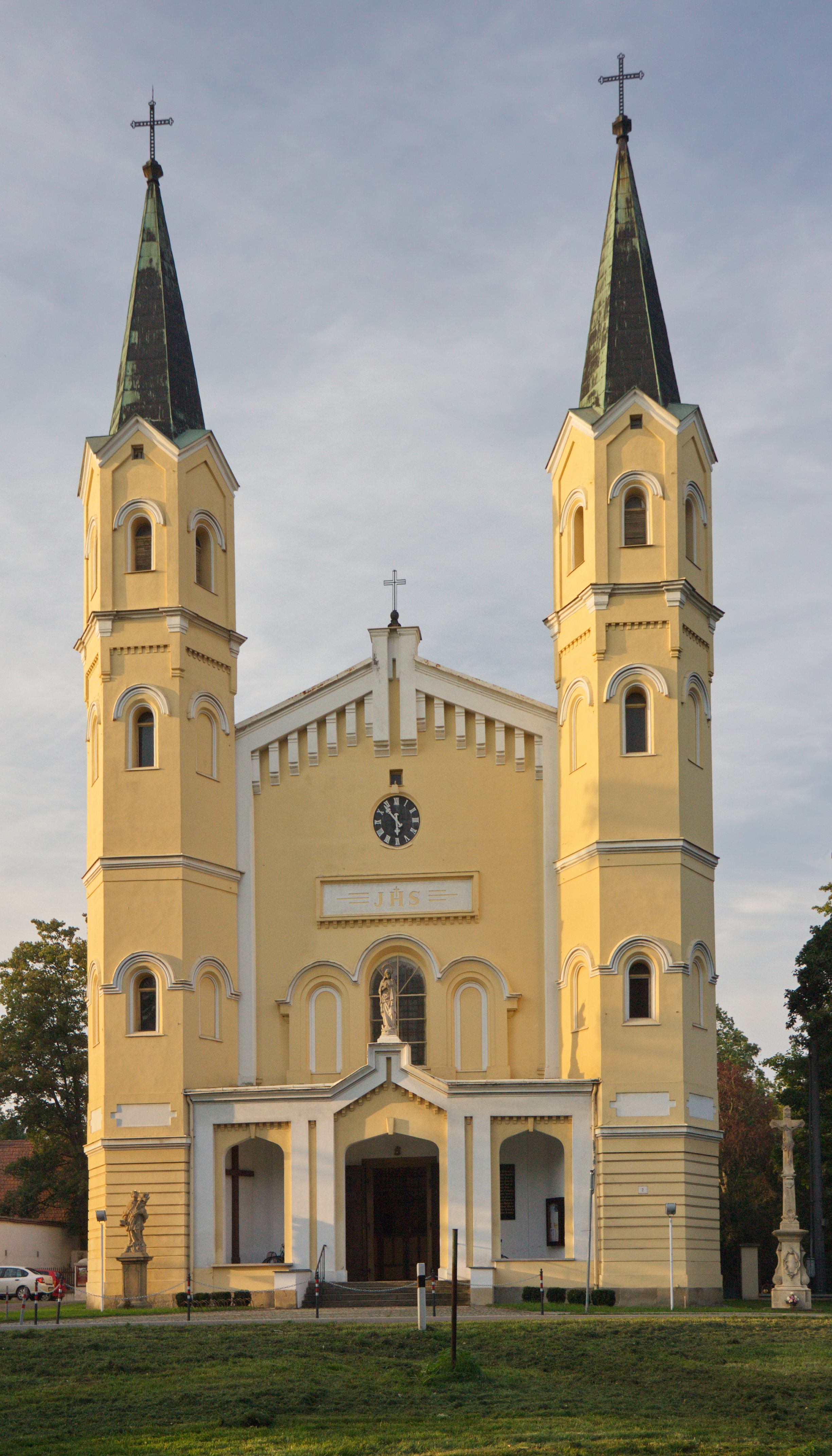 Church of Exaltation of the Holy Cross, Kunín. Moravian-Silesian Region, Czech Republic.